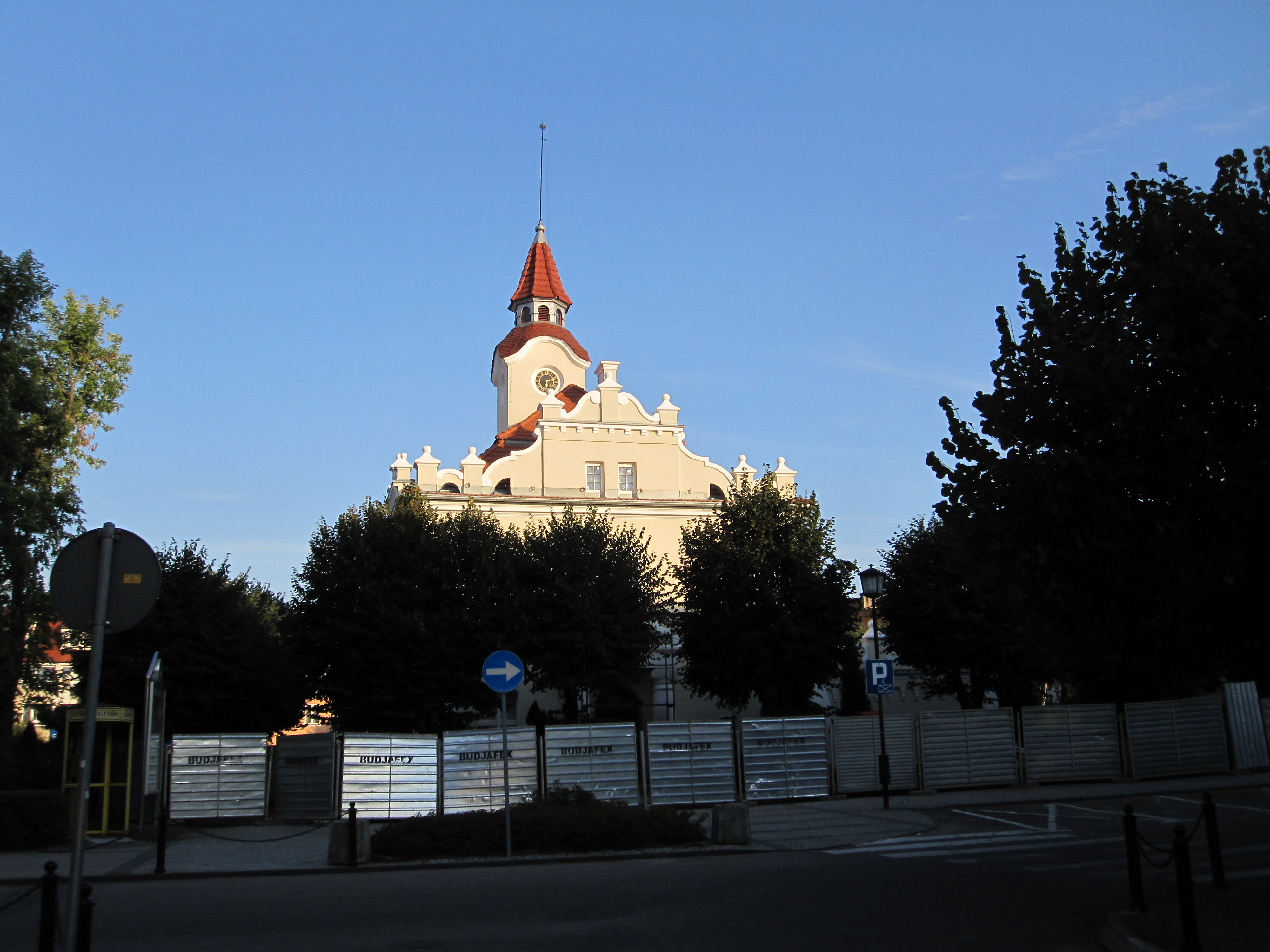 Działdowo - Town hall